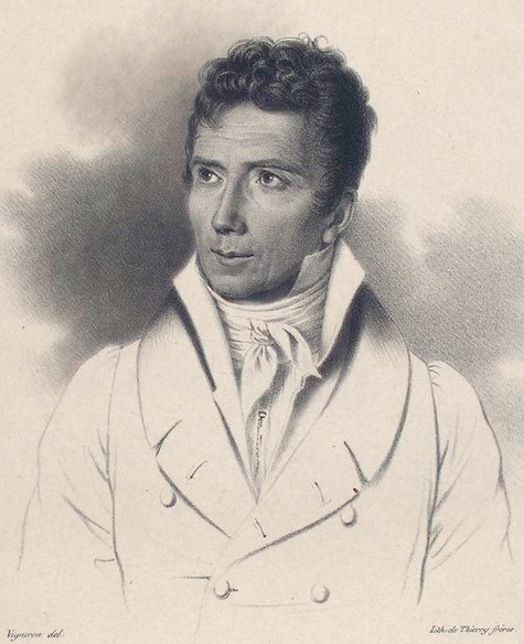 French composer Pierre Desvignes (1764-1827) by Thierry frères (19th c.) after Pierre-Roch Vigneron (1789-1872).